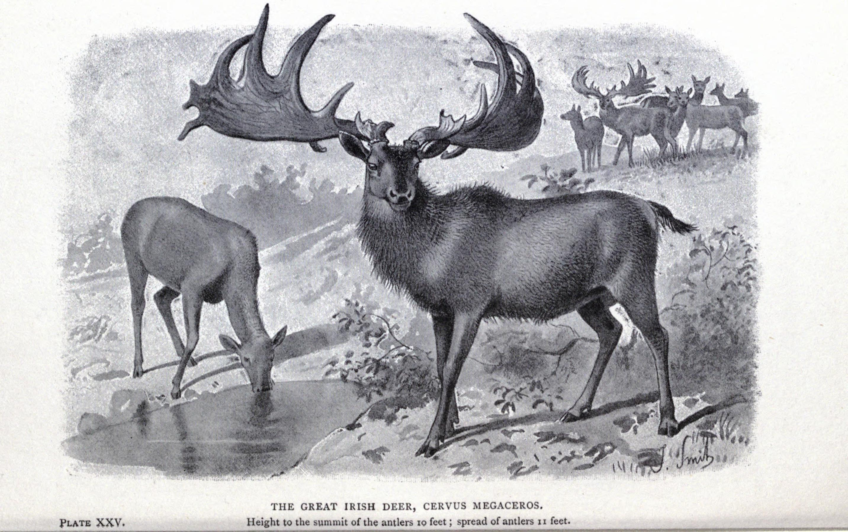 Extinct monsters.